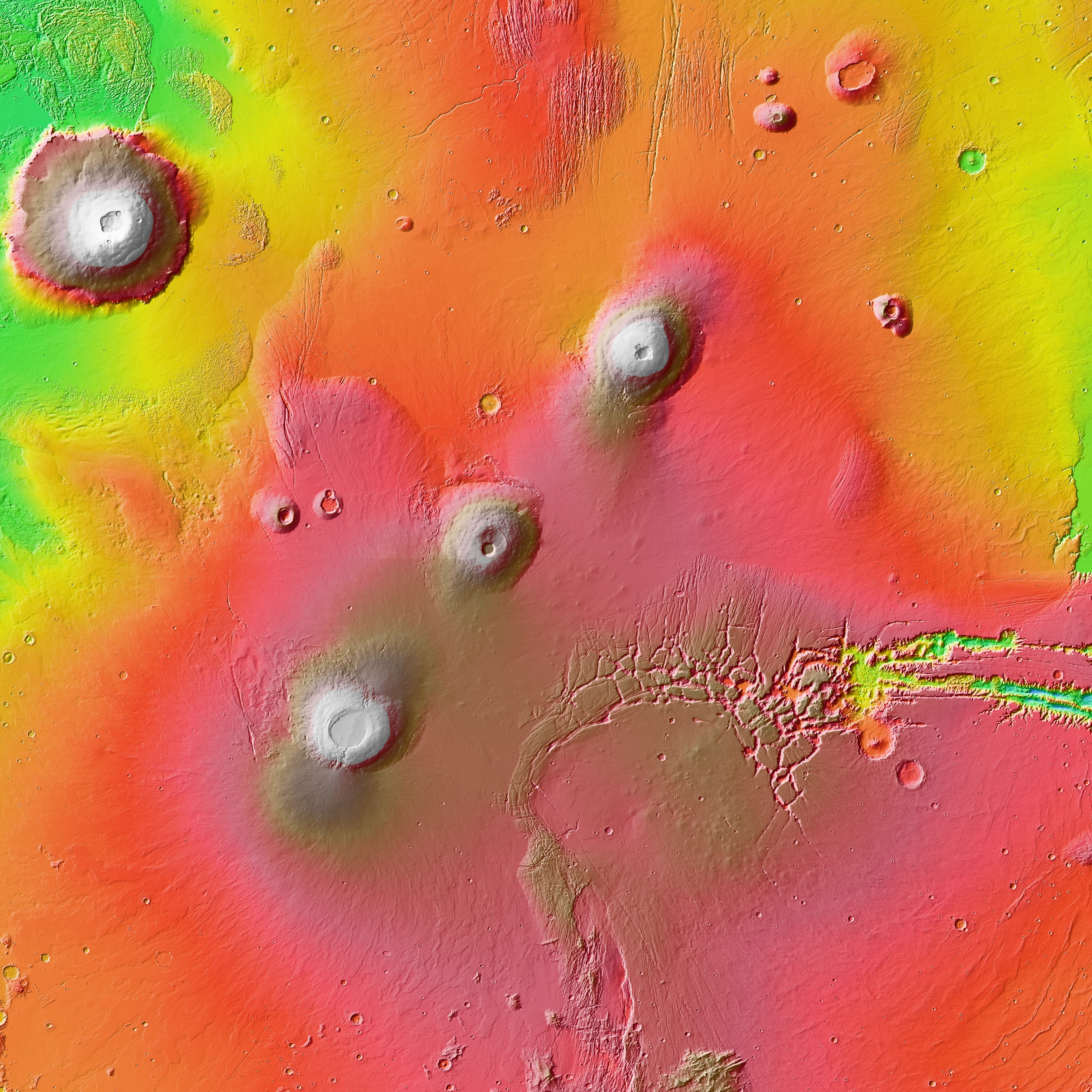 Mars Orbiter Laser Altimeter (MOLA) colorized topographic map of the central part of the Tharsis volcanic province in the western hemisphere of Mars, centered on the three massive aligned shield volcanoes known as the Tharsis Montes. The even larger volcano Olympus Mons is in the upper left; the western end of the Valles Marineris canyon system is on the right. Many of the features on this map are annotated in Wikimedia Commons.